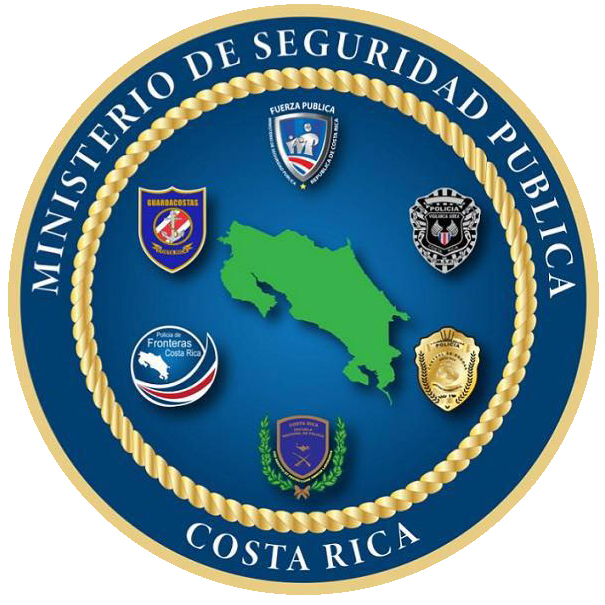 Logo Ministerio de Seguridad Pública